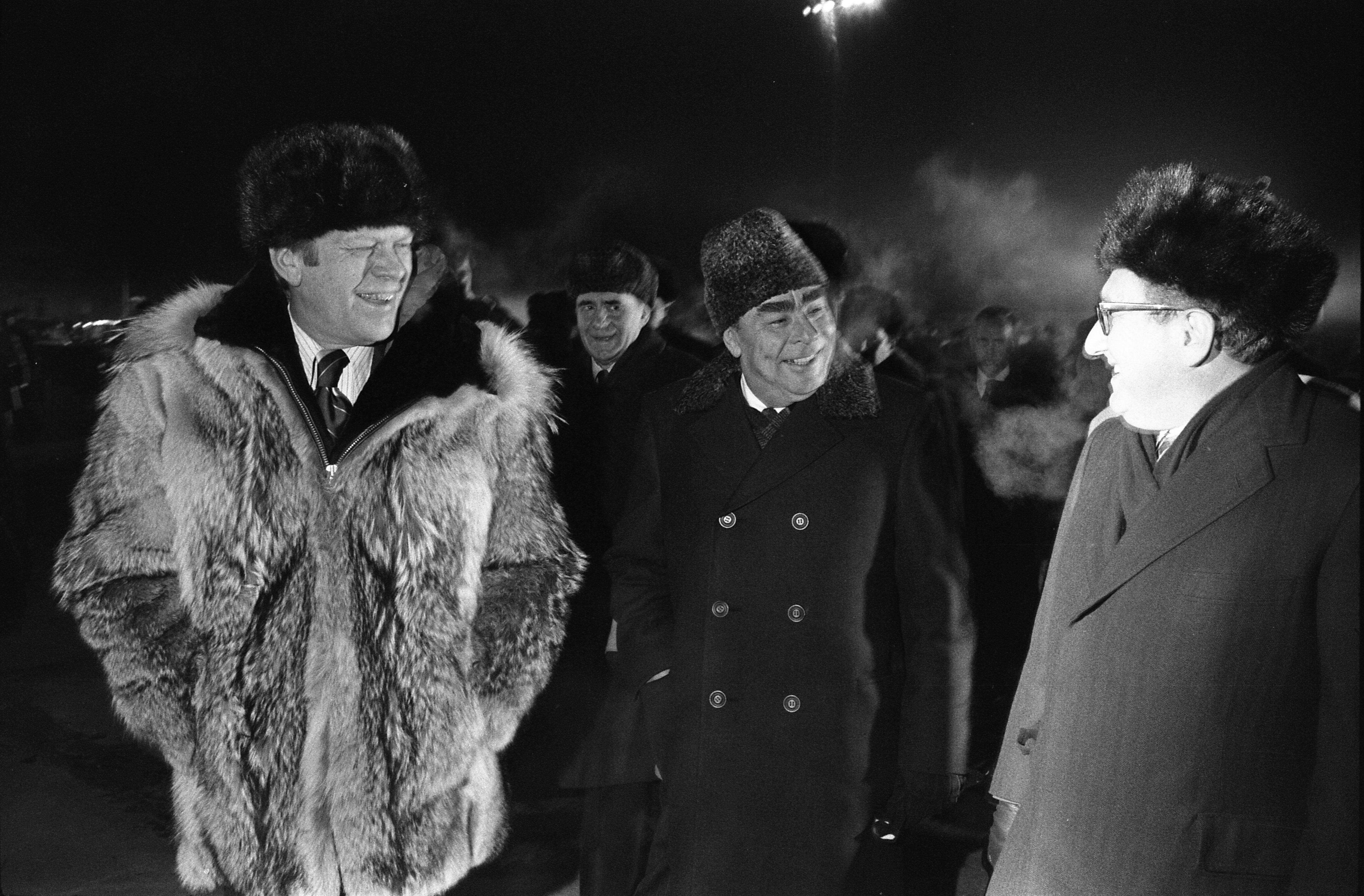 Photograph of President Gerald Ford, General Secretary Lenoid Brezhnev, and Henry Kissinger speaking informally at the conclusion of the Vladivostok Summit on the tarmac at Vozdvizhenka Airport. Just moments after this photo was taken, President Ford informally concluded the Vladivostok Summit by giving his wolfskin coat to Secretary Brezhnev.